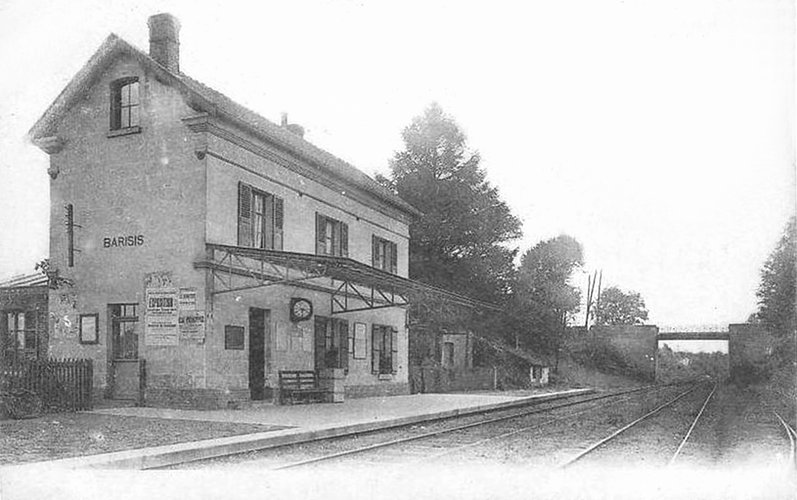 Tje Barisis's train station in 1900's before it's destruction during the first world war